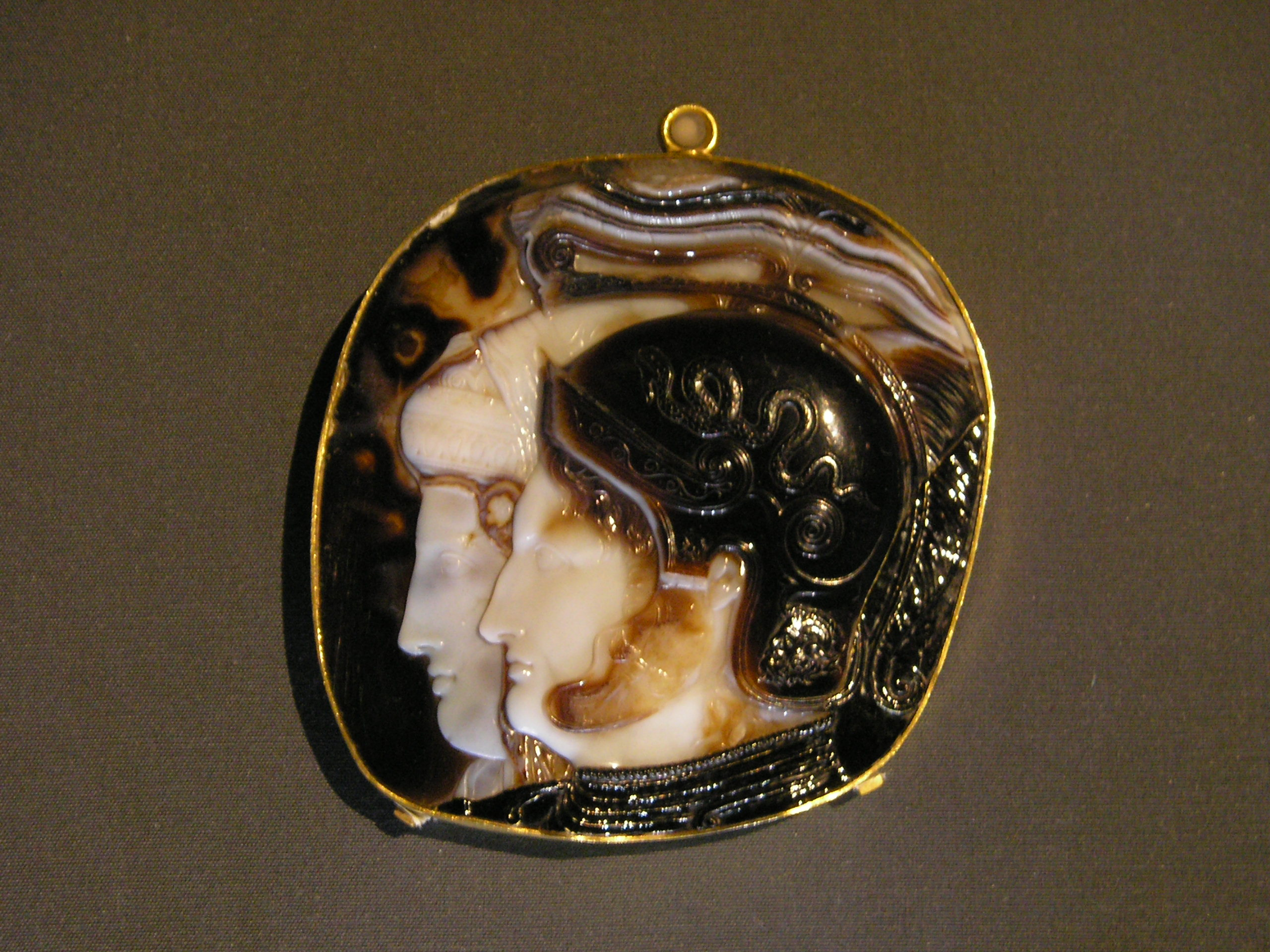 A Gemma, in the Collection of Greek and Roman Antiquities in the Kunsthistorisches Museum, Vienna. Depiction of an Emperor.